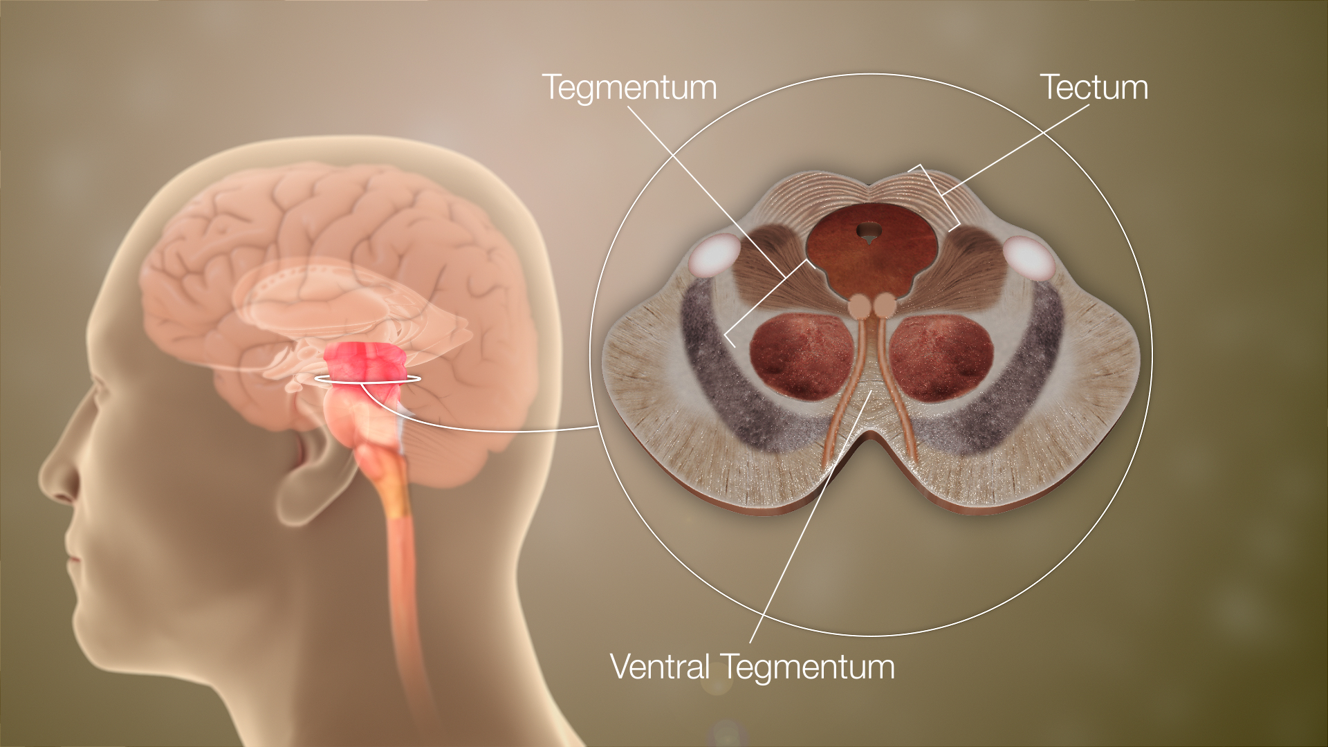 3D medical illustration showing three different parts of mid brain